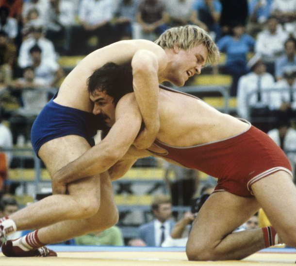 “Wrestlers Ilya Mate and Julius Strnisko”. Olympic champion, wrestler Ilya Mate (100 kg) and bronze medalist Julius Strnisko (Czechoslovakia), left, at the wrestling event. XXII Olympic Games. July 19-August 3, 1980.